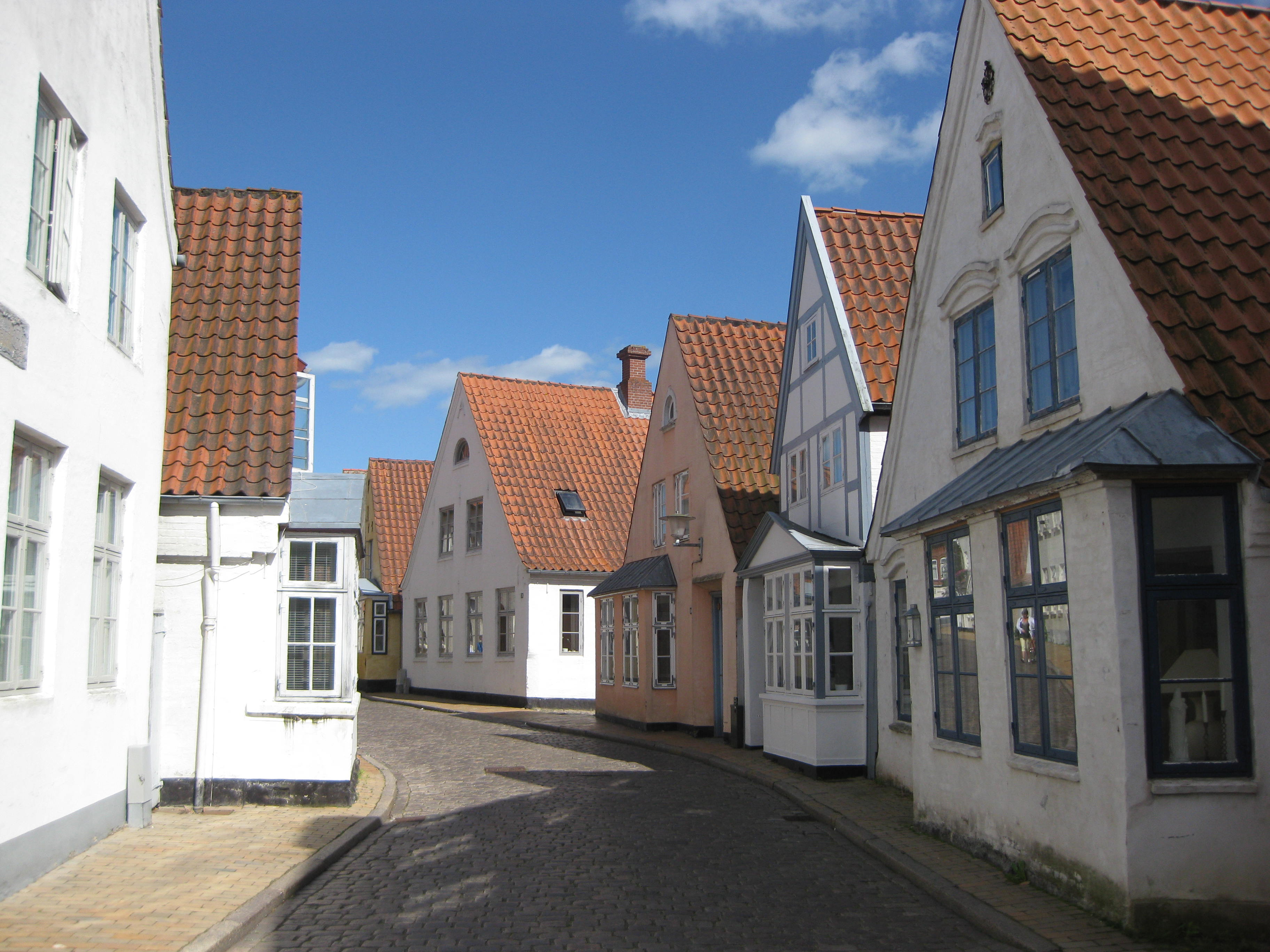 The street "Slotsgade" in the town "Aabenraa". The town is located in Southern Jutland, Denmark.